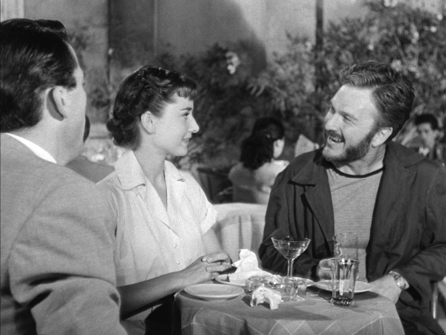 Cropped screenshot of Gregory Peck, Audrey Hepburn and Eddie Albert from the trailer for the film Roman Holiday.